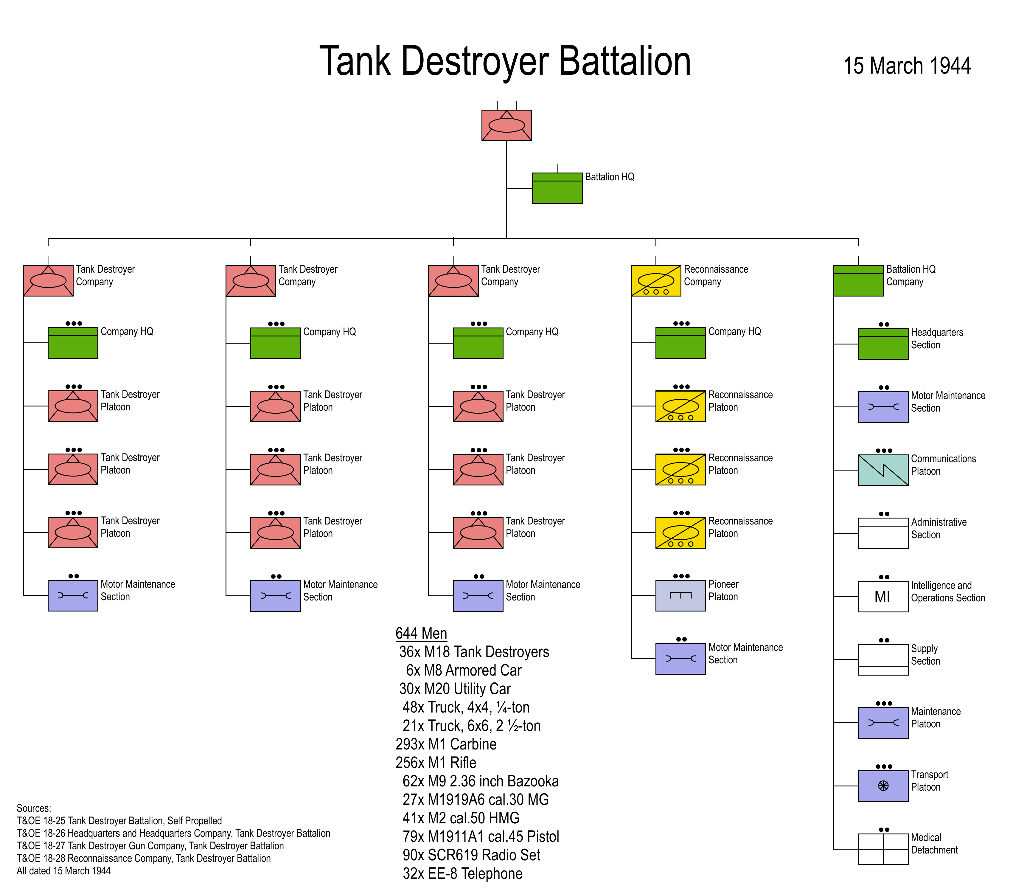 Order of Battle and condensed T&OE of US Tank Destroyer Battalion, March 1944